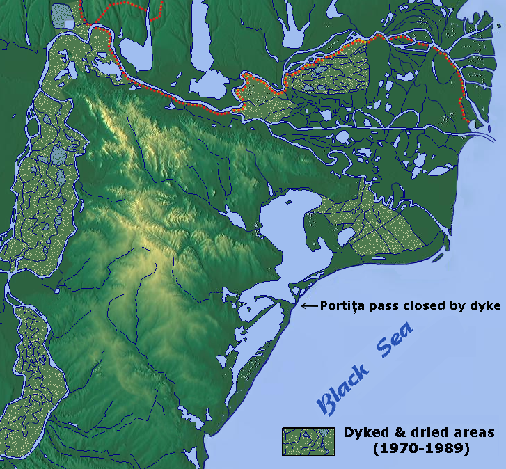 Dyked & dried areas in the Danube Delta under the communist rule, according with Petre Gâstescu and Romulus Stiucă's works